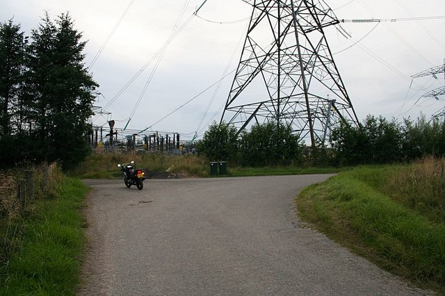 Electricity sub station at Blackhillock.